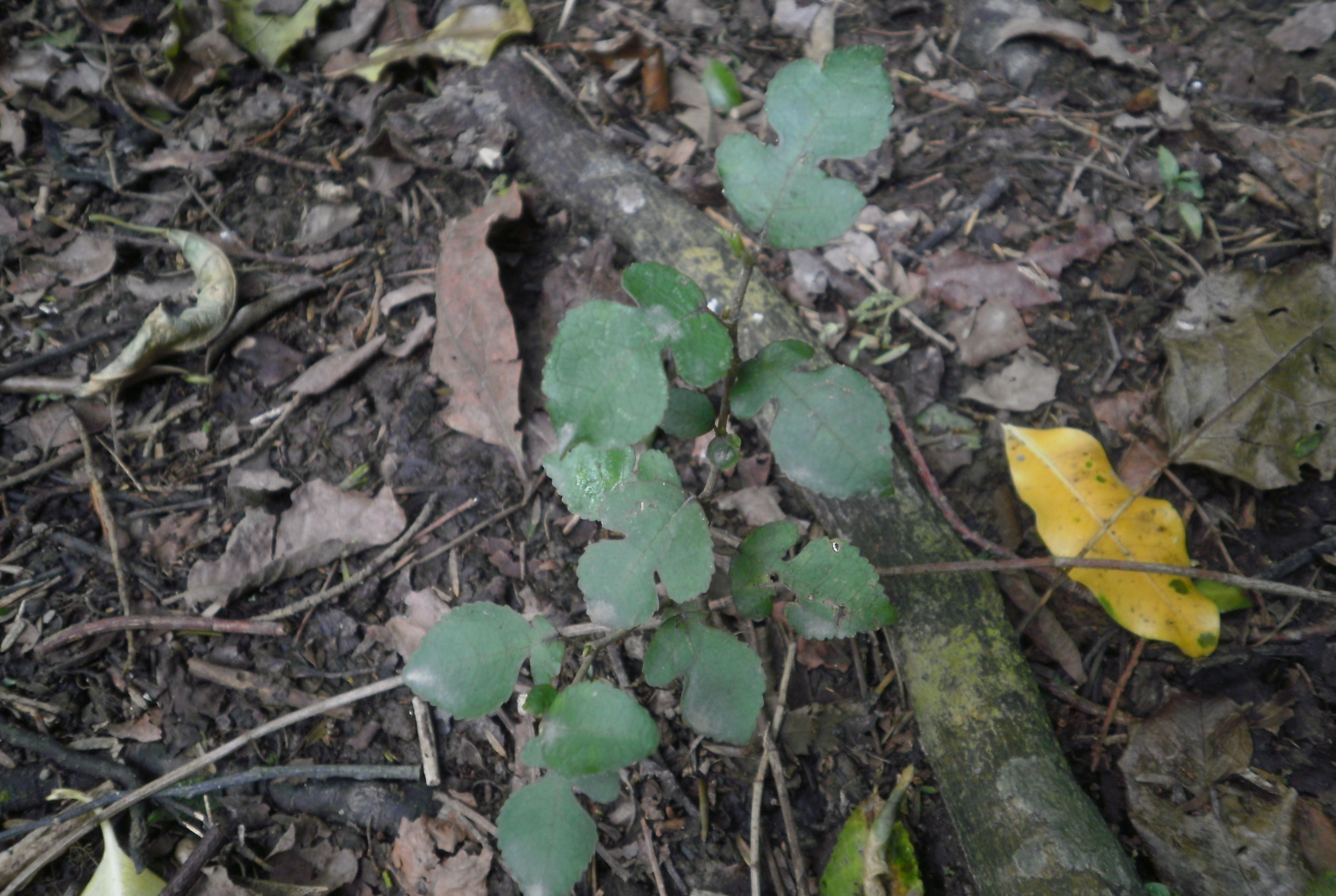 Streblus heterophyllus, small-leaved milk tree, seedling in Benge Park, Upper Hutt, New Zealand.